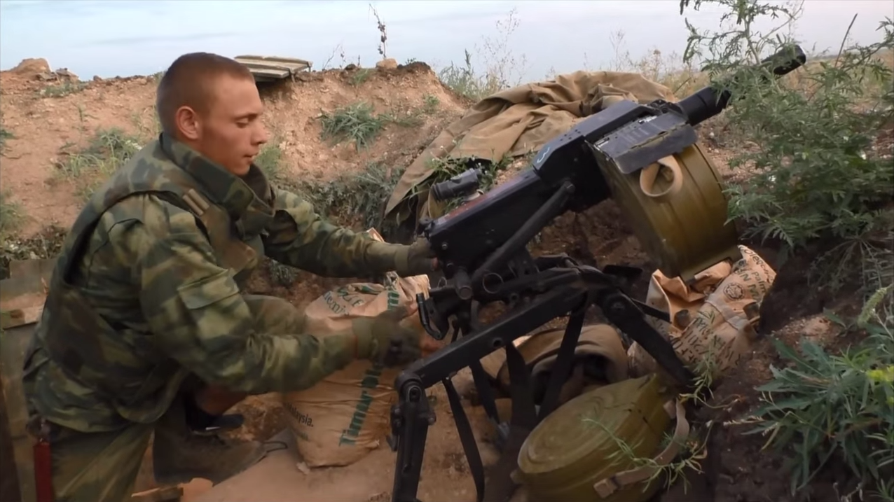 A fighter of the Vikings Battalion (3rd Company) with an AGS-17, near Bila Kam'yanka.